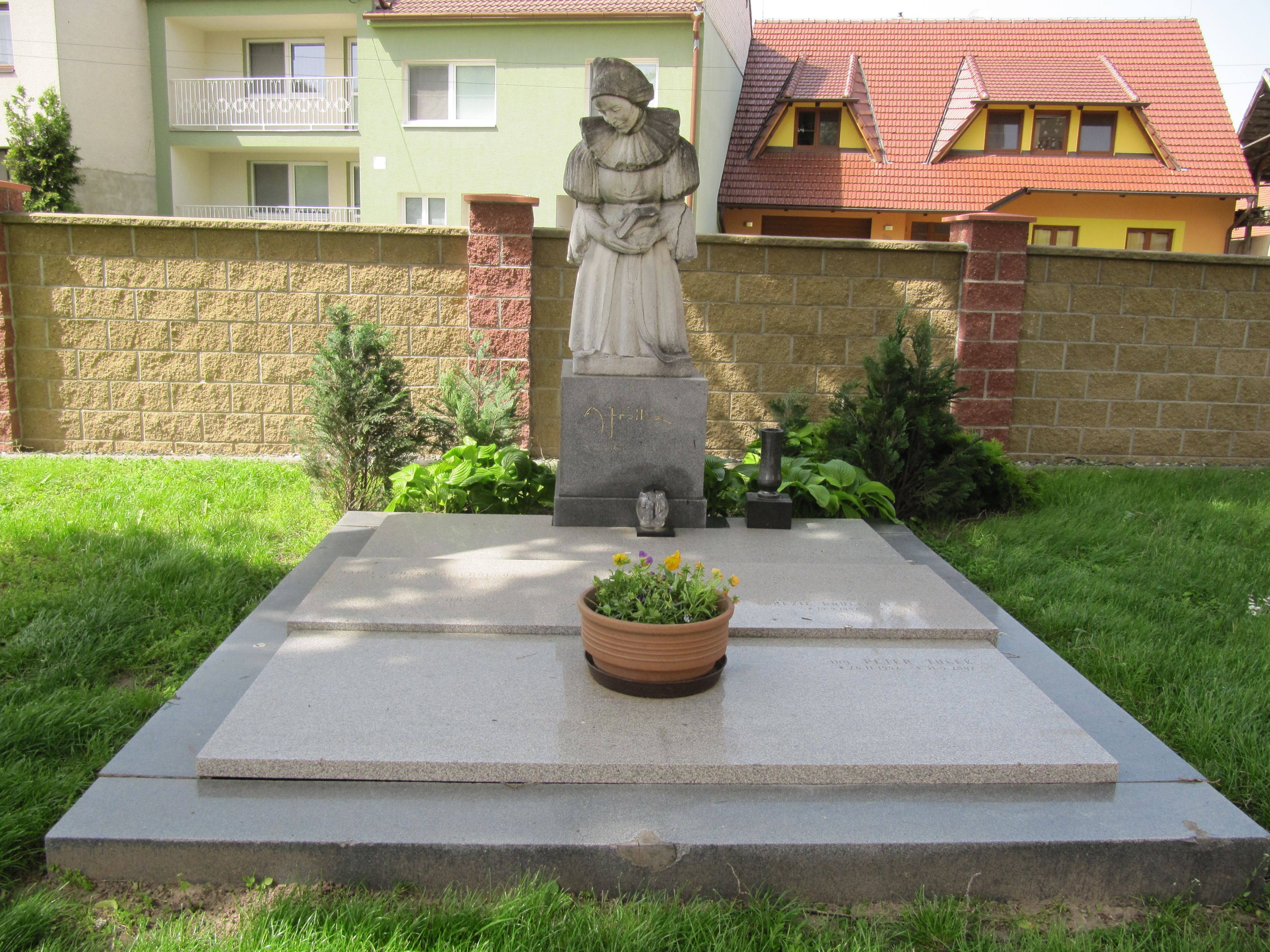 Kněždub, Hodonín District, Czechia.